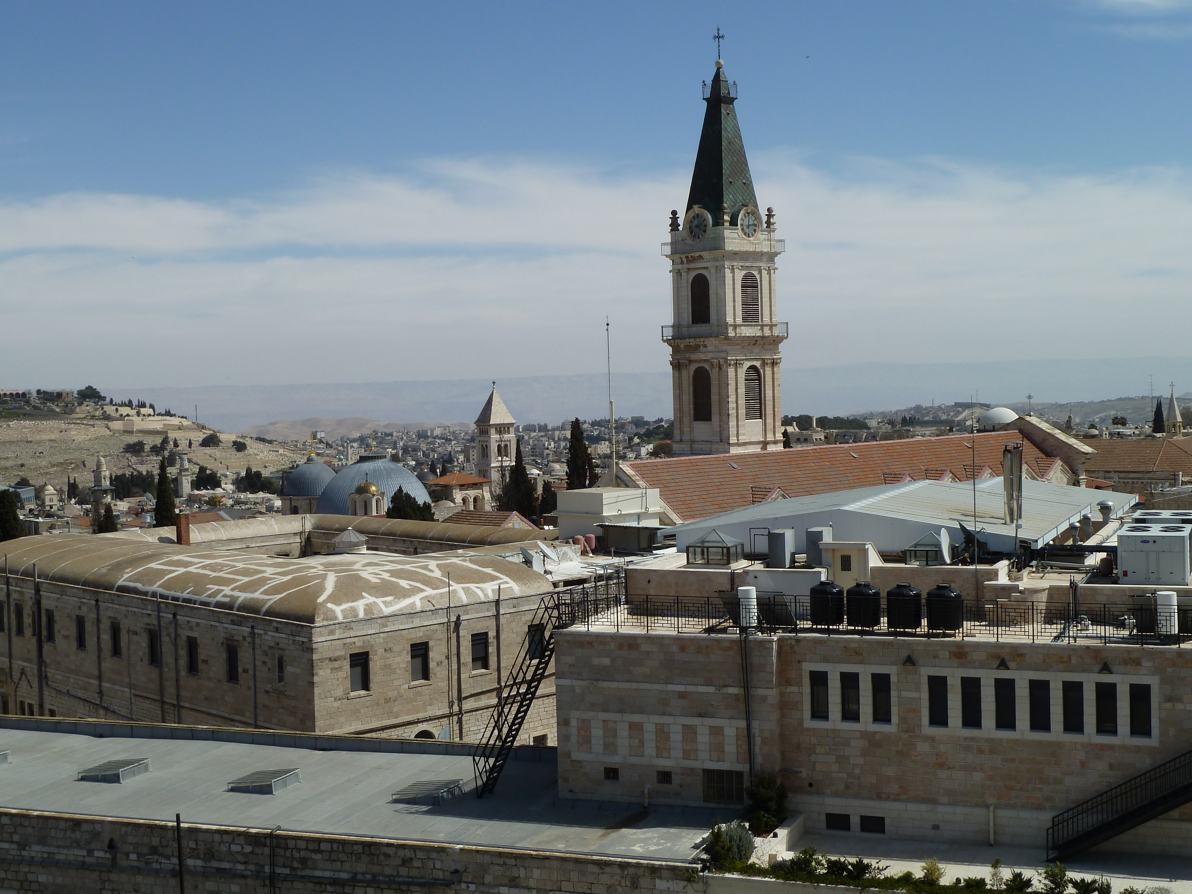 Notre Dame de Jerusalem